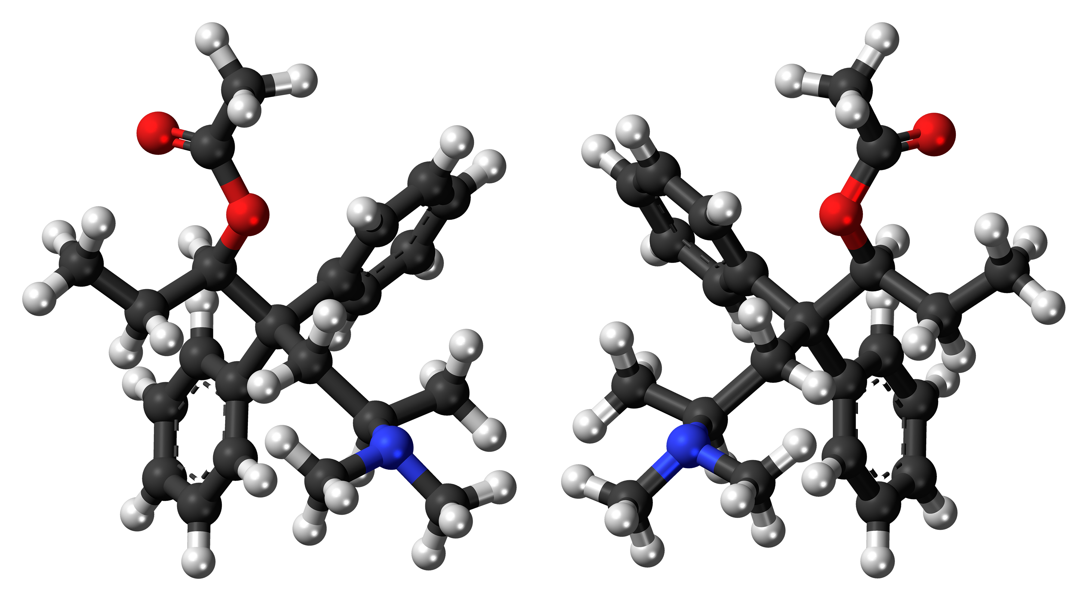 Ball-and-stick models of the alphacetylmethadol molecule, an opioid painkiller. This image shows the R,R/dextrorotatory isomer (left) and the S,S/levorotatory isomer (right). Color code: Carbon, C: black Hydrogen, H: white Oxygen, O: red Nitrogen, N: blue